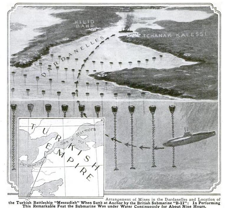 Graphic depiction of the raid by British submarine HMS B11 on the Dardanelles leading to the sinking of the Turkish battleship Messudieh